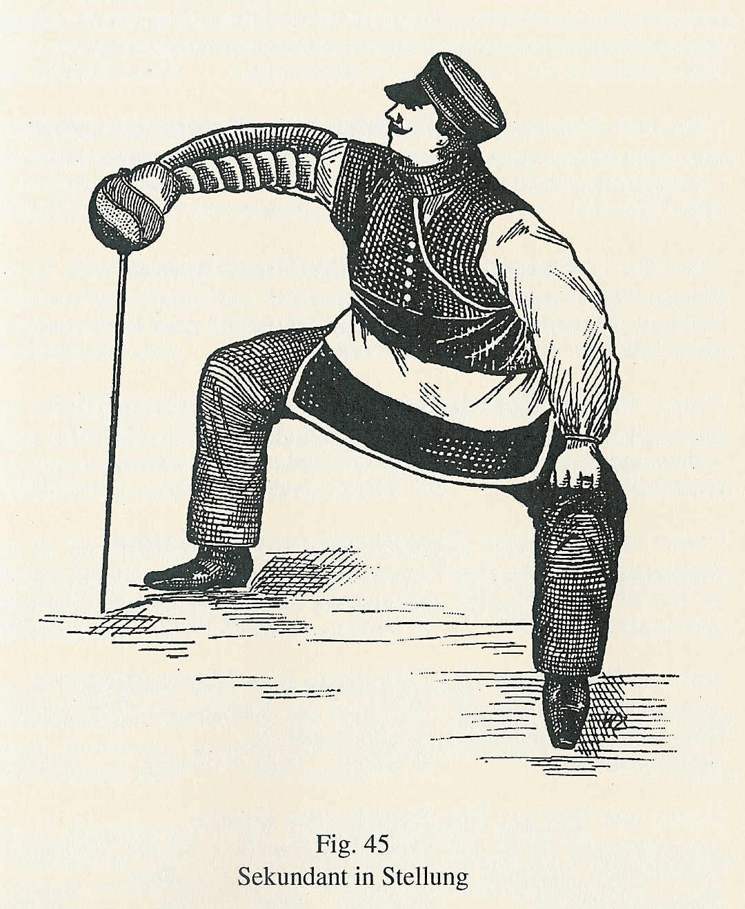 A second in German academic fencing, in position, German fencing manual of 1906, ein Sekundant in Stellung beim Mensurfechten, Fechtlehrbuch von 1906